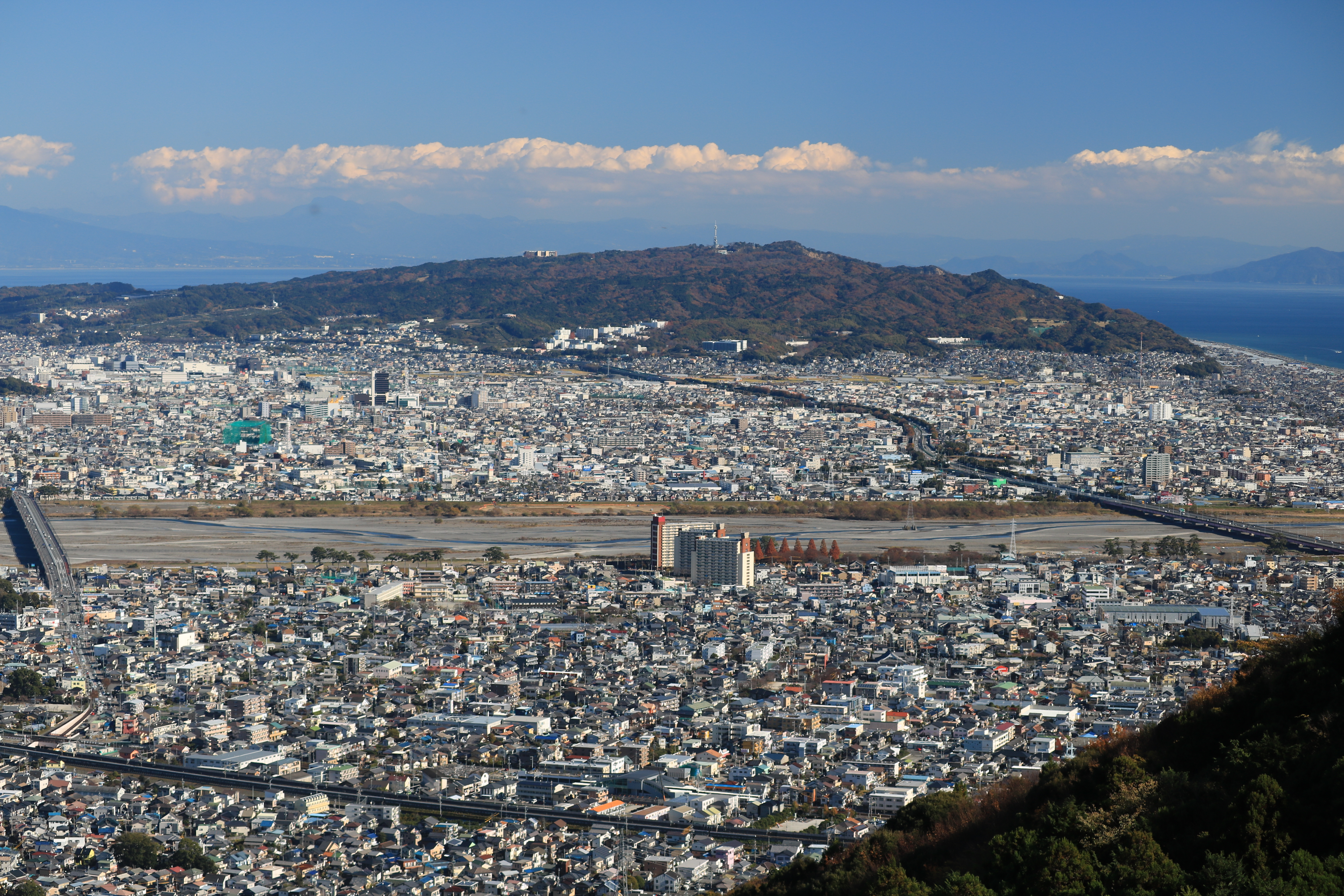 Nihondaira, Abe River and Tomei Expressway seen from Chōseniwa in Shizuoka city, Shizuoka prefecture, Japan.